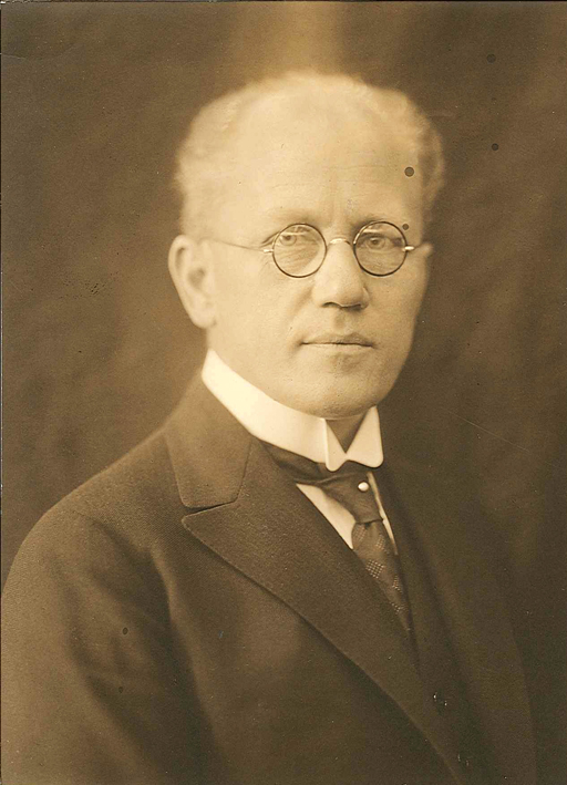 Karl Schlyter (1879-1959), Swedish jurist and politician (social democrat); Minister of Justice 1932-1936.